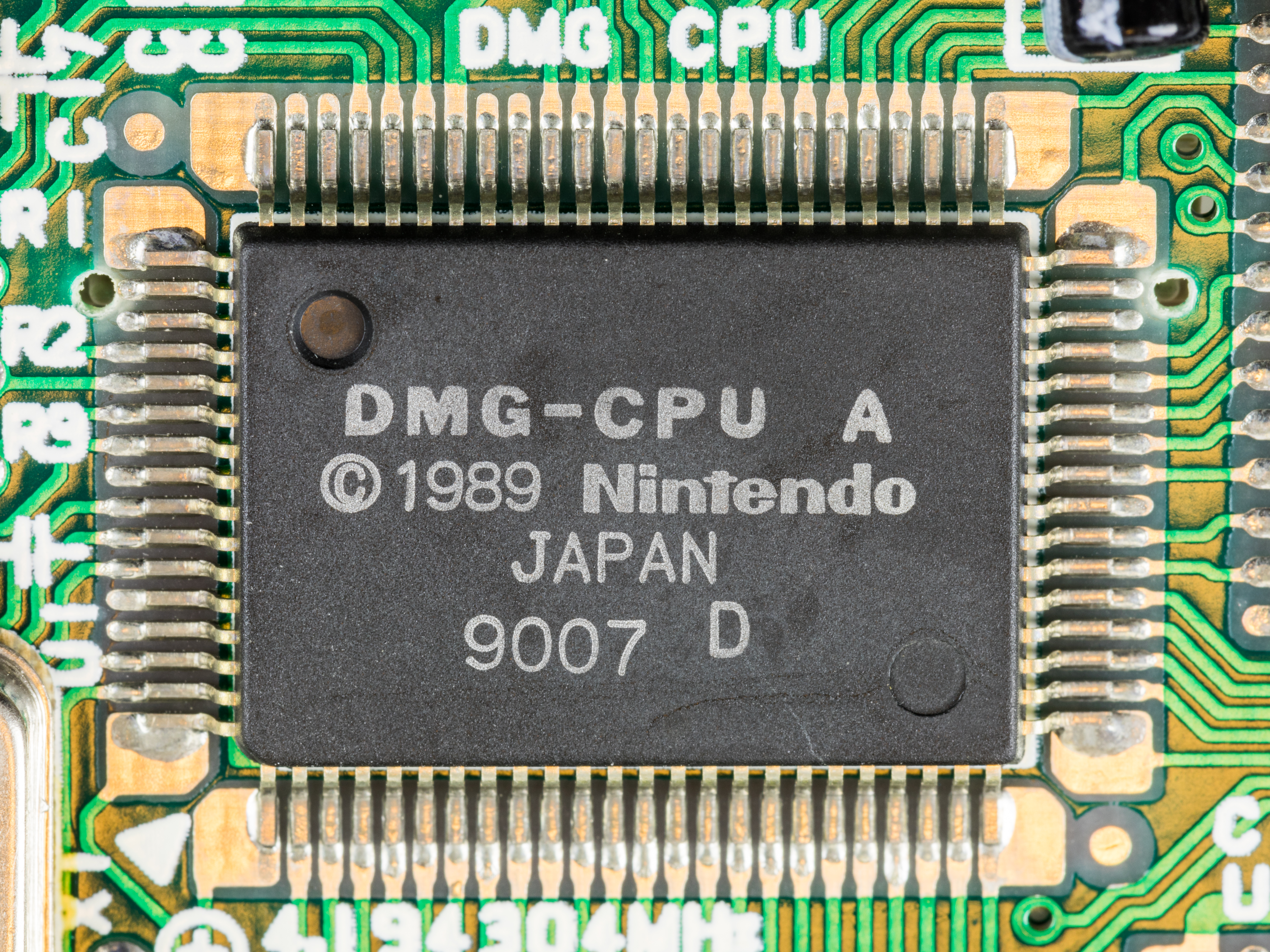 Nintendo Game Boy DMG-01 - CPU